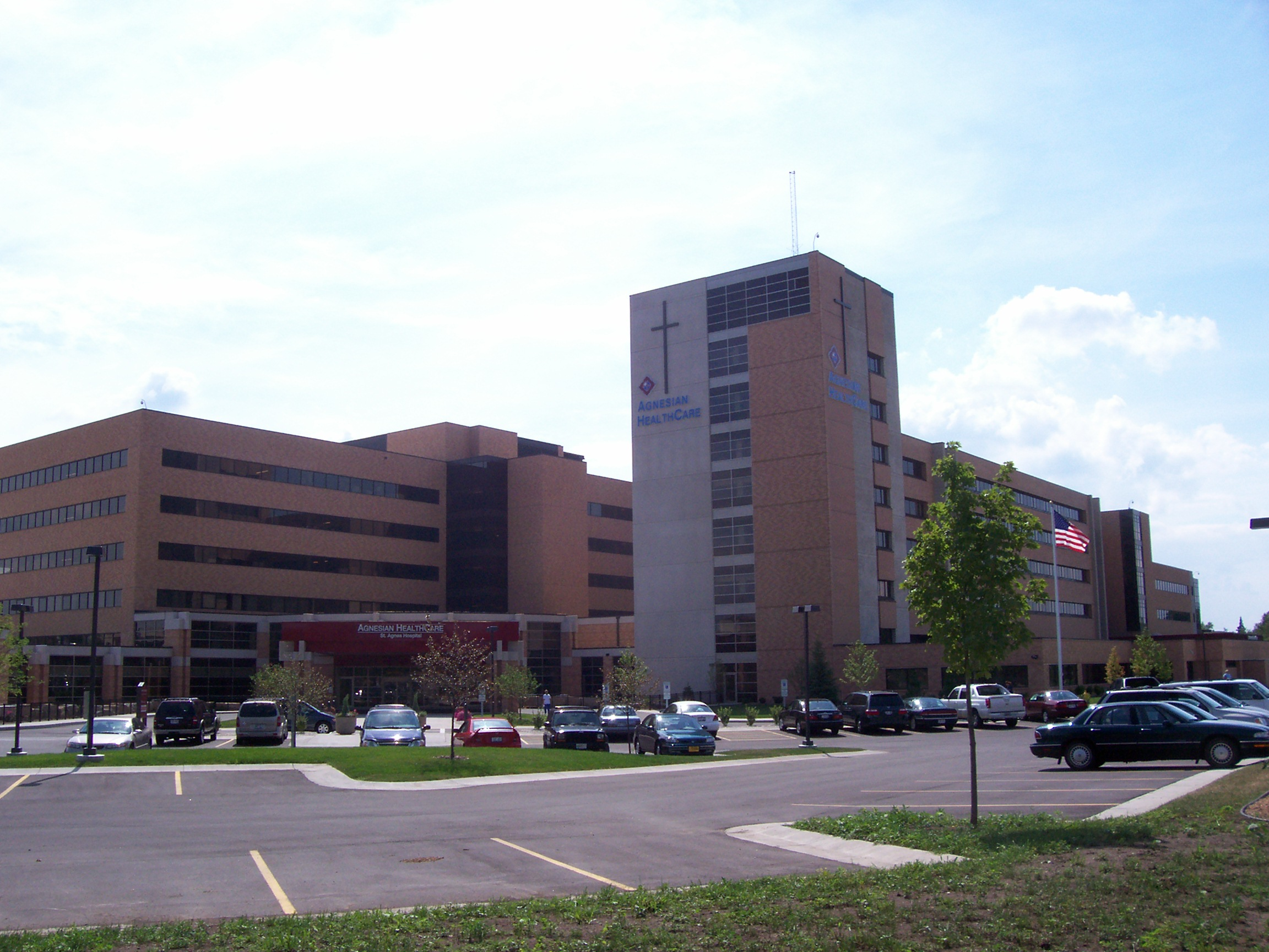 Agnesian HealthCare (hospital) in Fond du Lac, Wisconsin. I took this image myself on August 10, 2006.